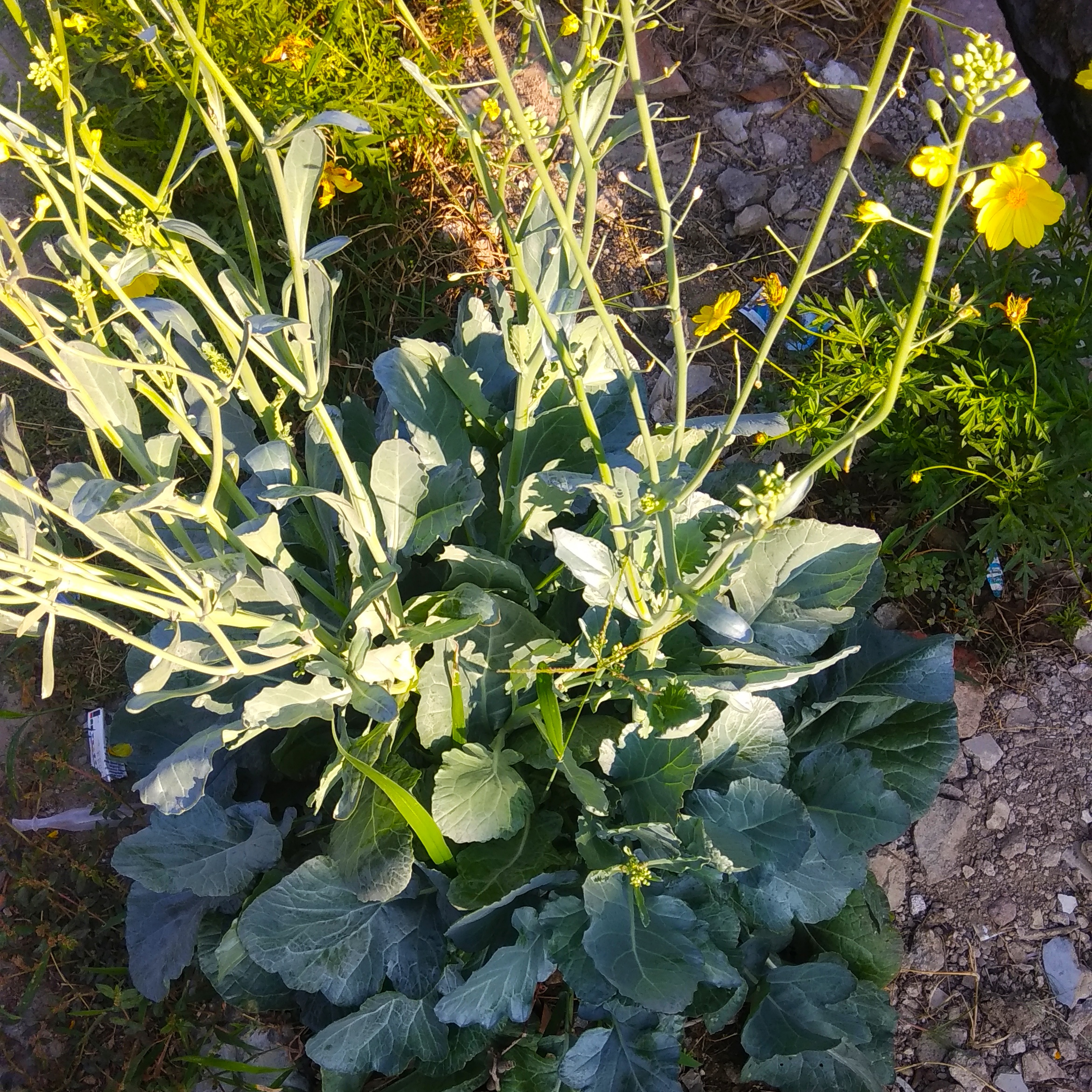 Field mustard